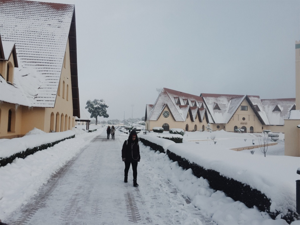 Snow is white